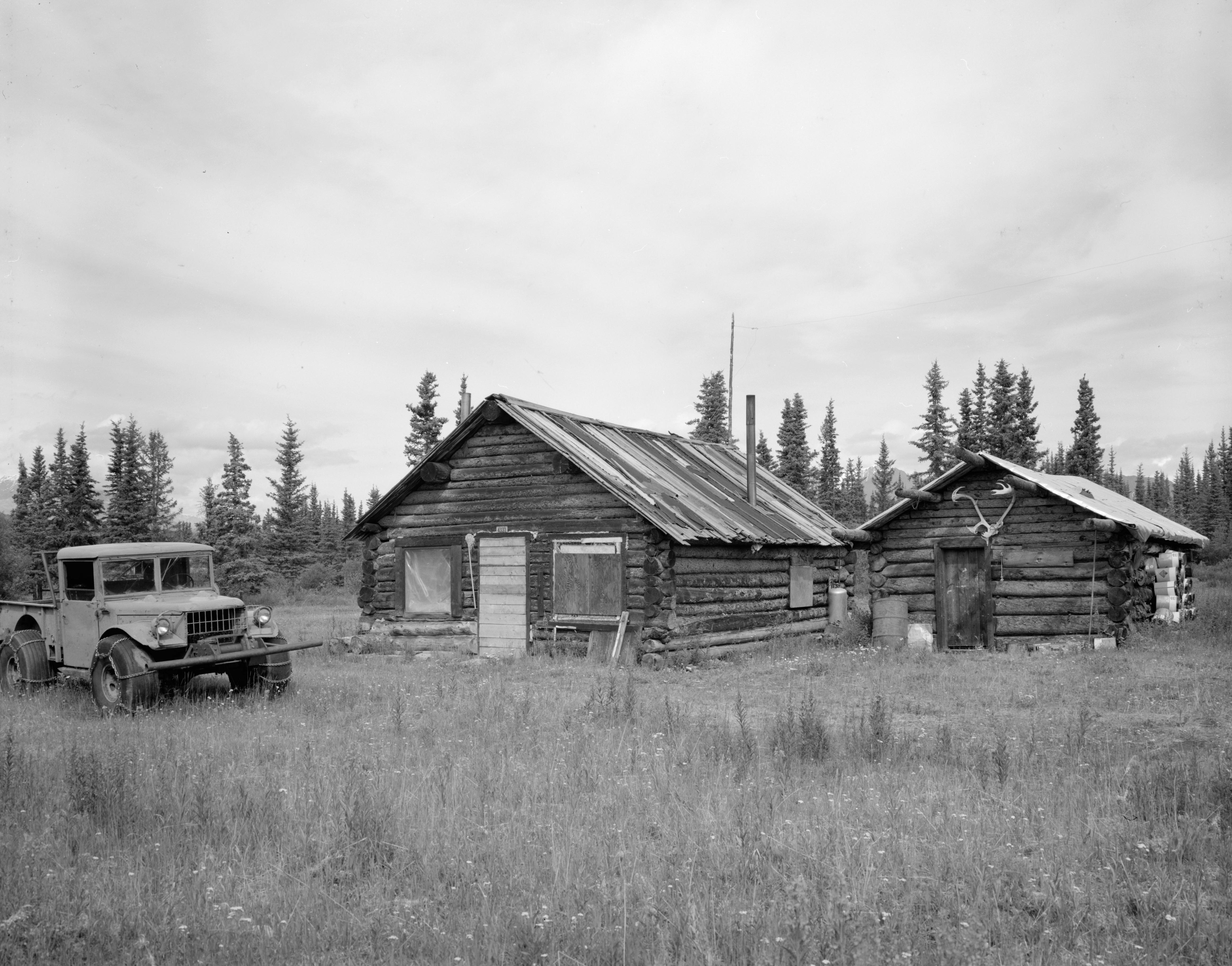 Southern and eastern sides of the post office in Chisana in the Valdez-Cordova Census Area of the U.S. state of Alaska. The post office is part of the Chisana Historic District, which is listed on the National Register of Historic Places. The truck to the left appears to be a Dodge M37.